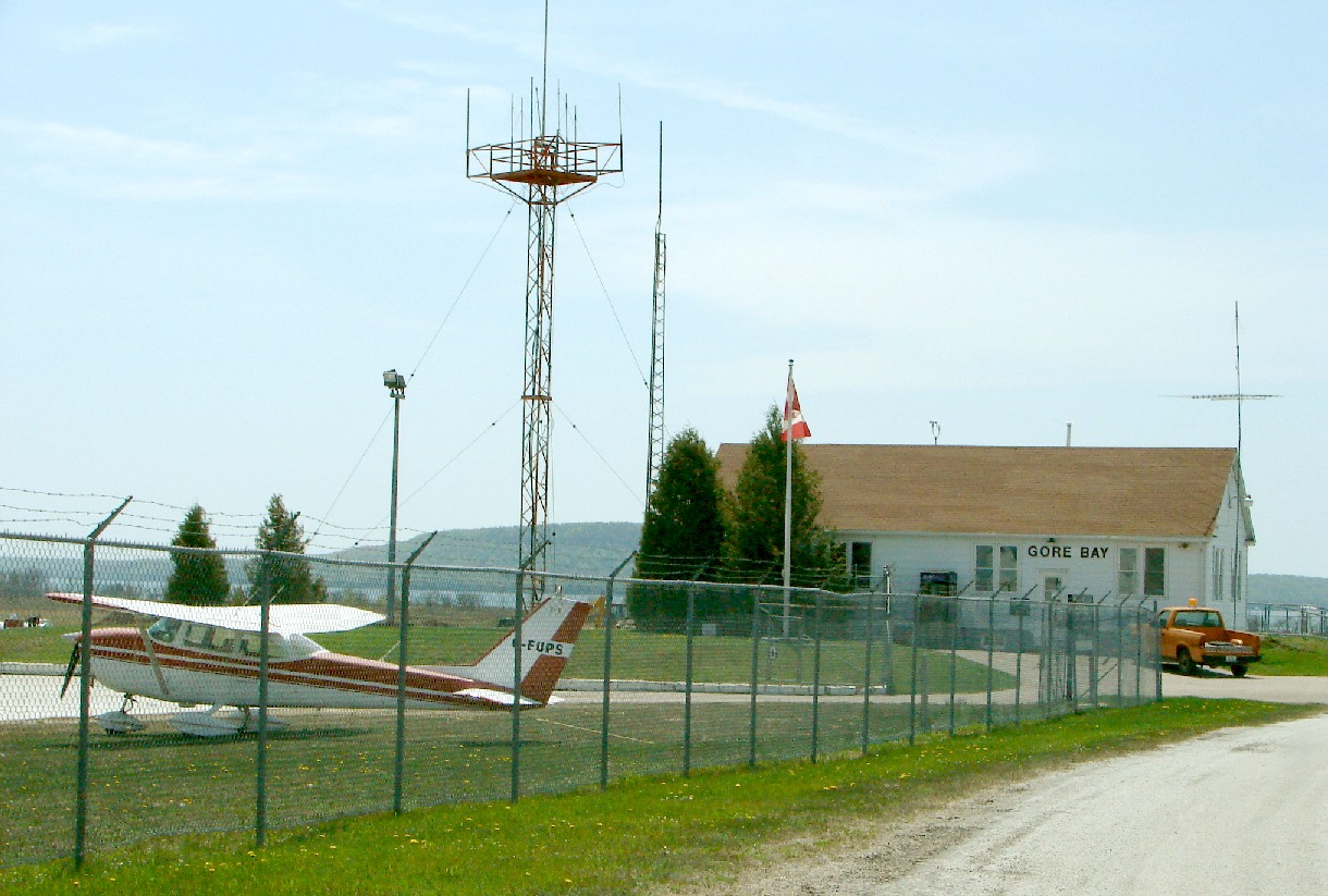 Gore Bay-Manitoulin Airport, Gordon Township, Ontario, Canada